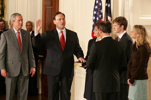 U.S. President George W. Bush watches as U.S. Supreme Court Justice Samuel Alito is sworn in by U.S. Chief Justice John Roberts, Wednesday, February 1 2006 in the East Room of the White House, as Alito's wife, Martha-Ann, their son Phil, and daughter Laura, look on.